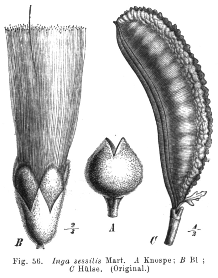 Illustration from book